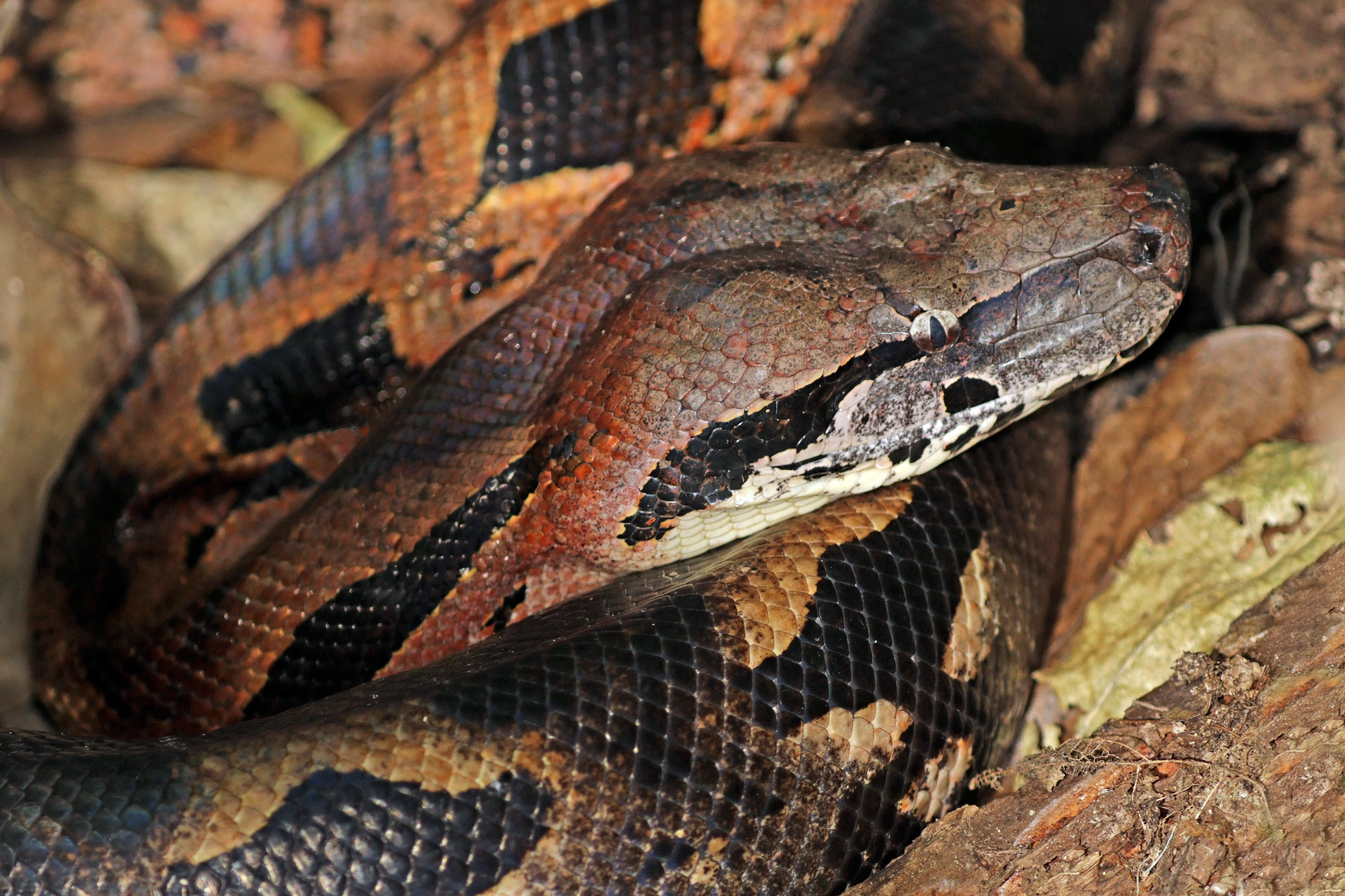 Madagascar ground boa (Acrantophis madagascariensis) head, Lokobe Strict Reserve, Madagascar